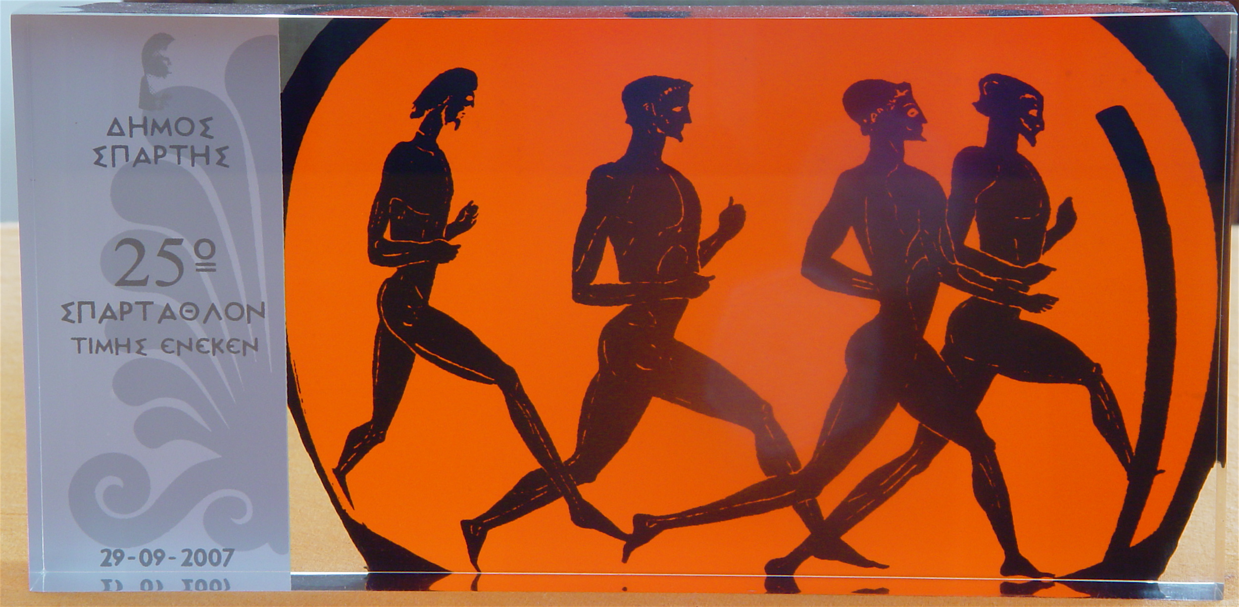 Special award of the 25th Spartathlon running